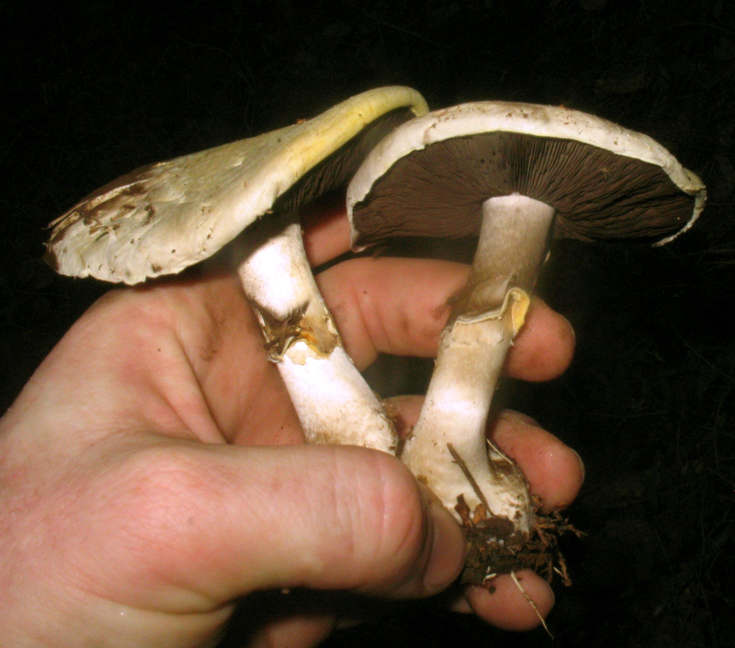 Agaricus albolutescens